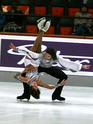 Alla Beknazarova and Vladimir Zuev during their free dance at the 2007 Nebelhorn Trophy.